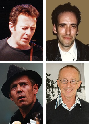 Montage of the classic lineup of The Clash. From top left: Joe Strummer, Mick Jones, Paul Simonon and Topper Headon.